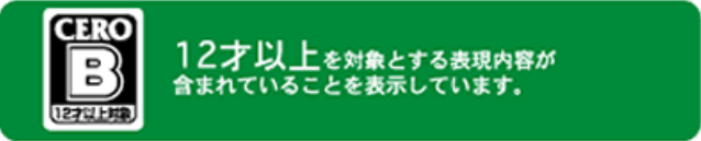 "B" label for ages 12 and up.